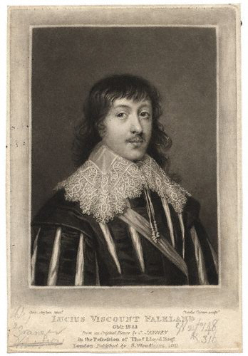 Lucius Cary, 2nd Viscount Falkland (c1610-1643)